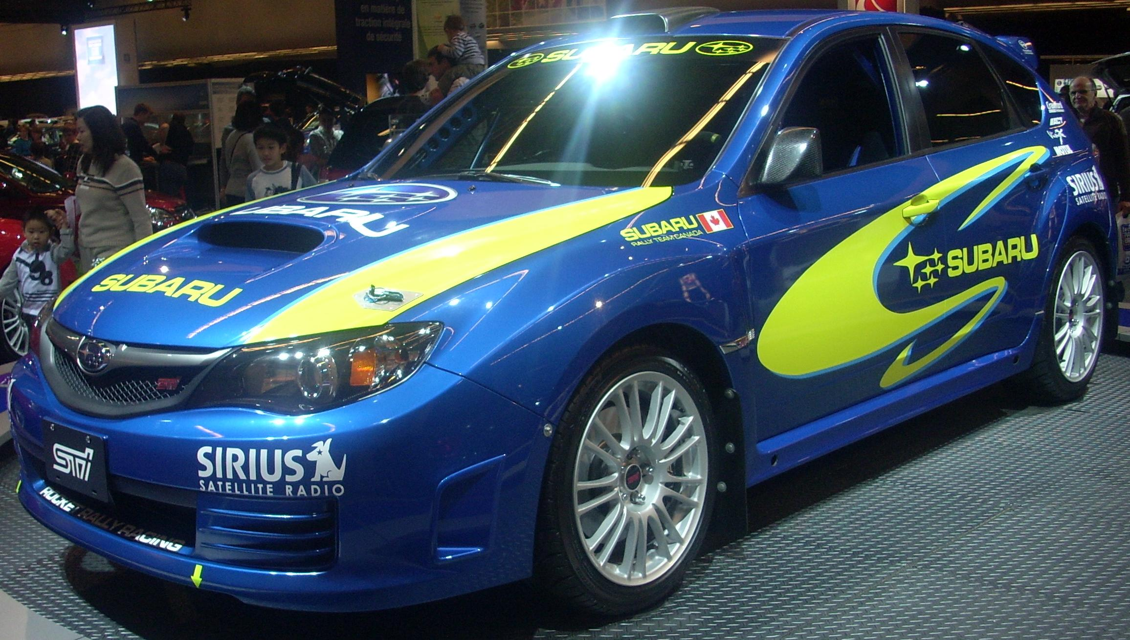 2009 Subaru Impreza WRX STI photographed at the 2009 Montreal International Auto Show.